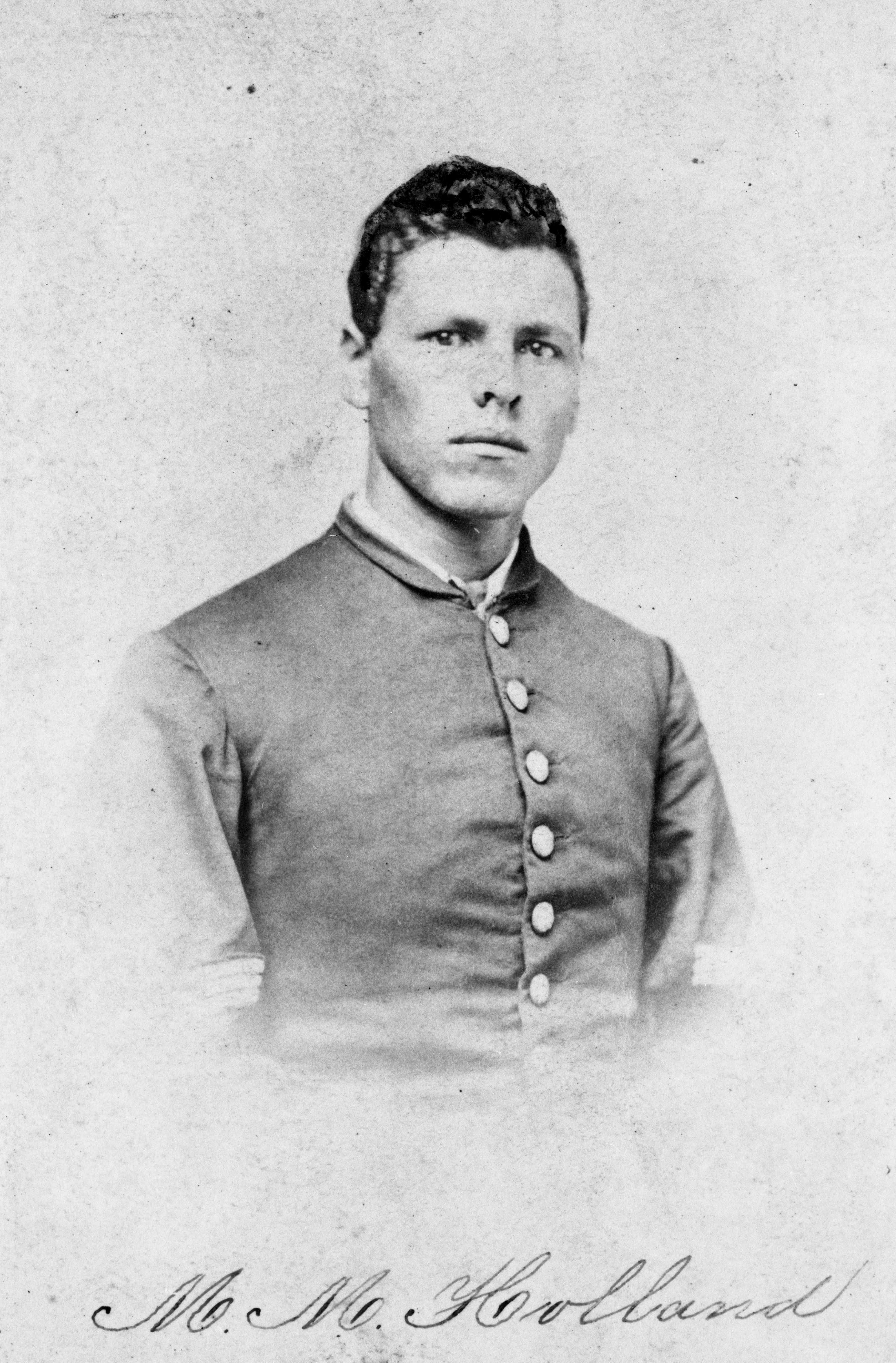 This is one of two known photos of Milton Holland taken in uniform. The other photo shows him wearing two medals, one of which could be his Congressional Medal of Honor. If that's the case, the other one would be 1865. This photo is probably earlier, likely 1863 or 1864.